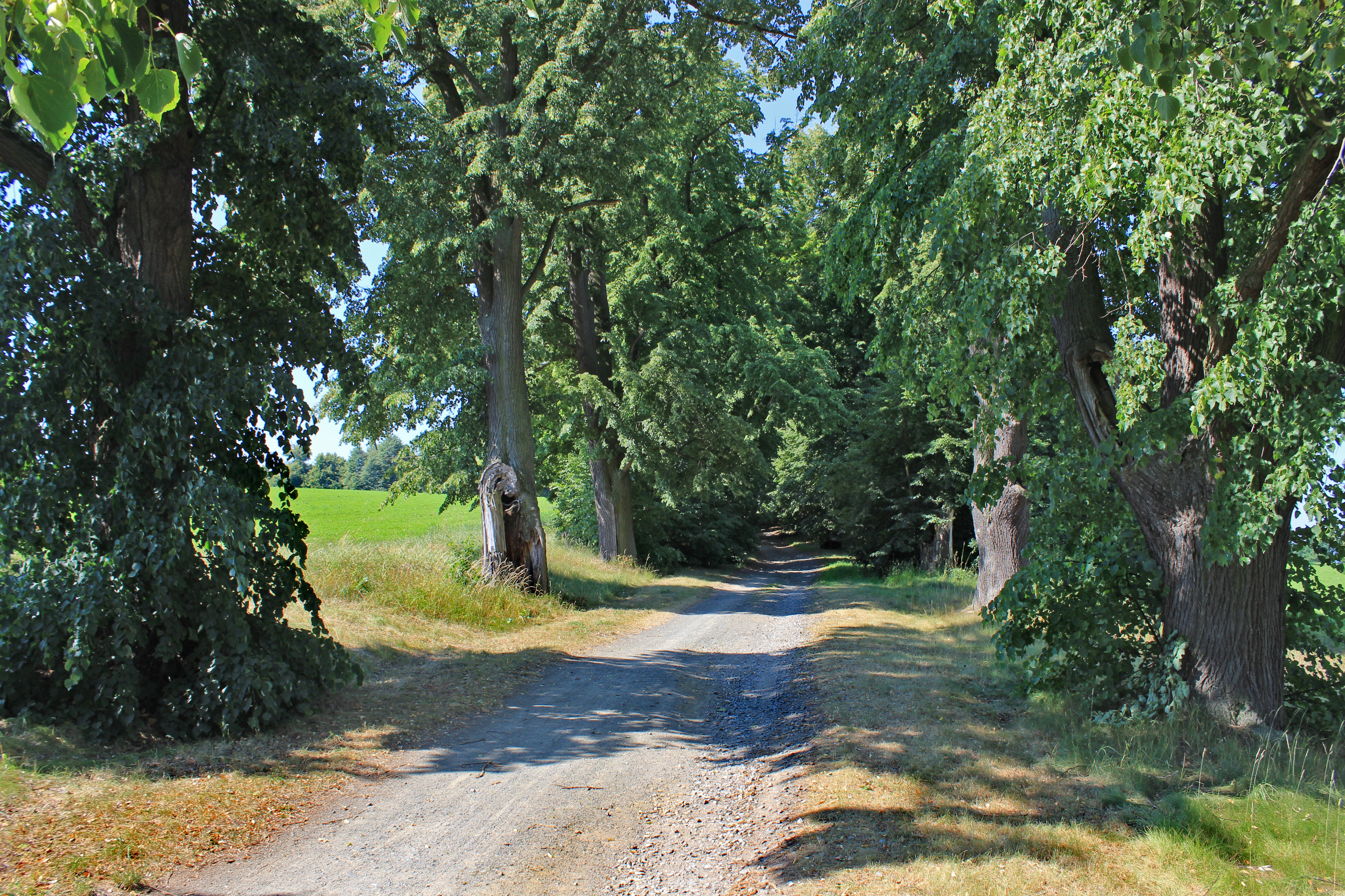 Alee to Svatá Anna, part of Horšovský Týn, Czech Republic.